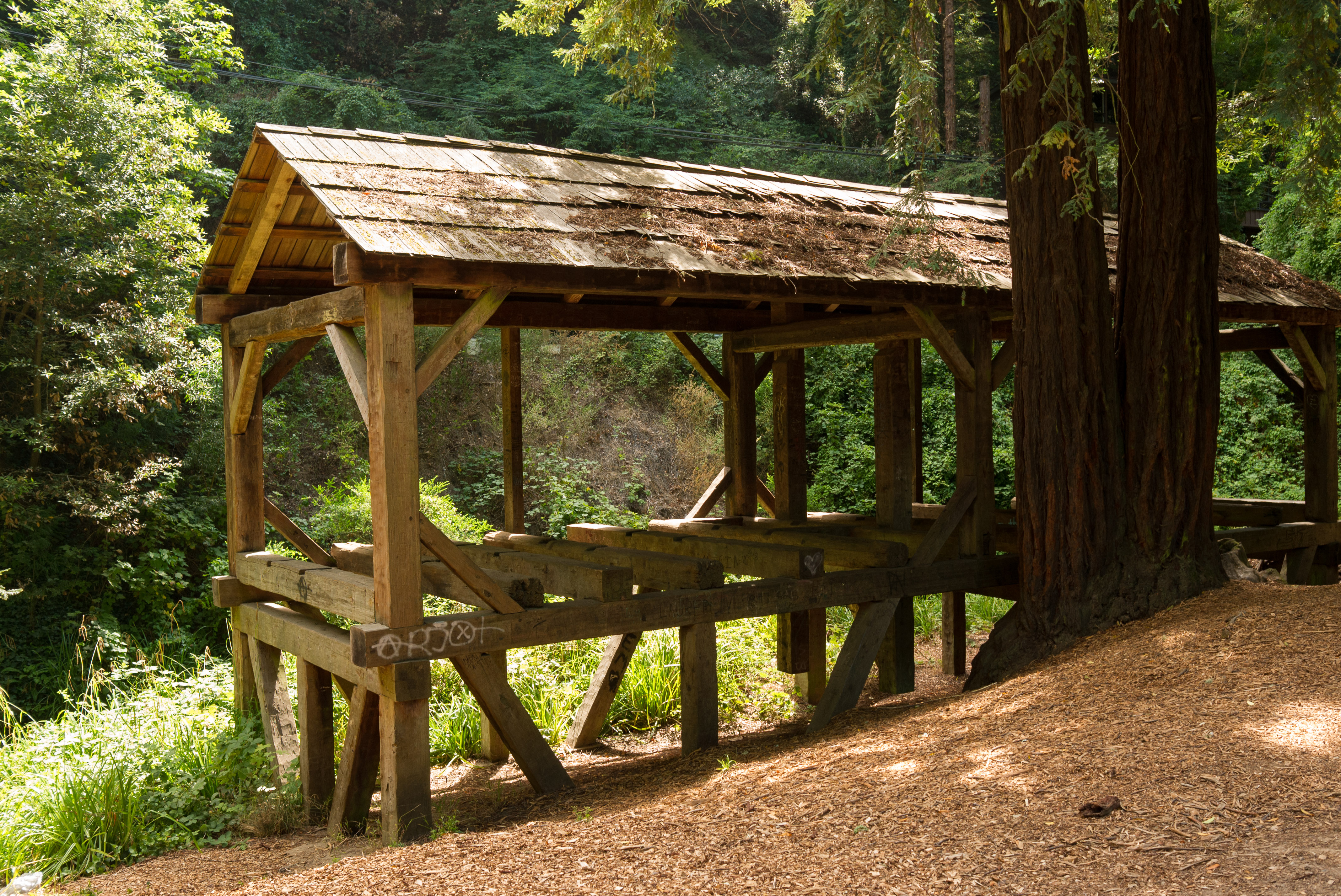 Reconstruction of John Reed's mill in today's "Old Mill Park". The town of Mill Valley was named after this mill.